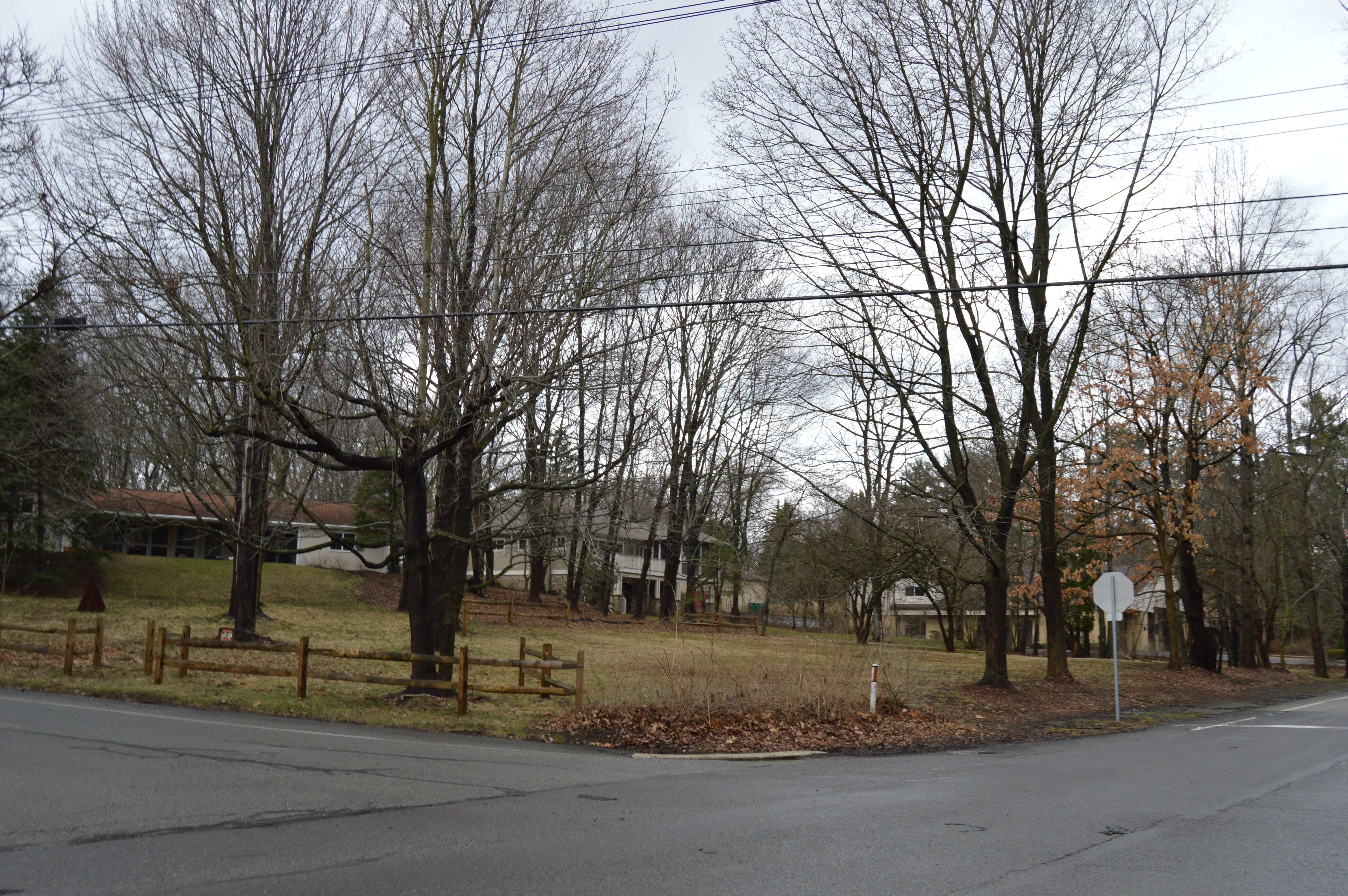 Typical wooded-residential scene in Bradford Woods, Pennsylvania, United States, seen looking northwest from the junction of Bradford and Wexford Run Roads.